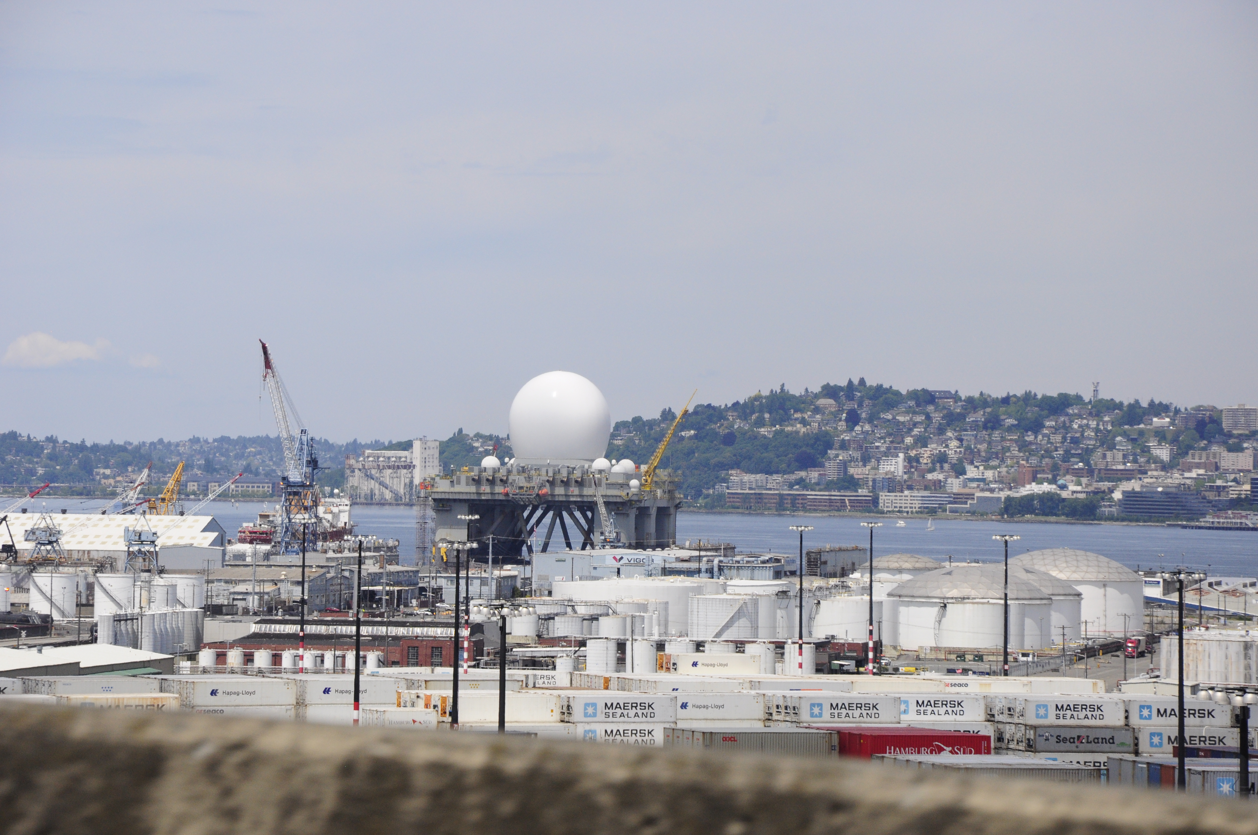 Sea-based X-band Radar at Port of Seattle